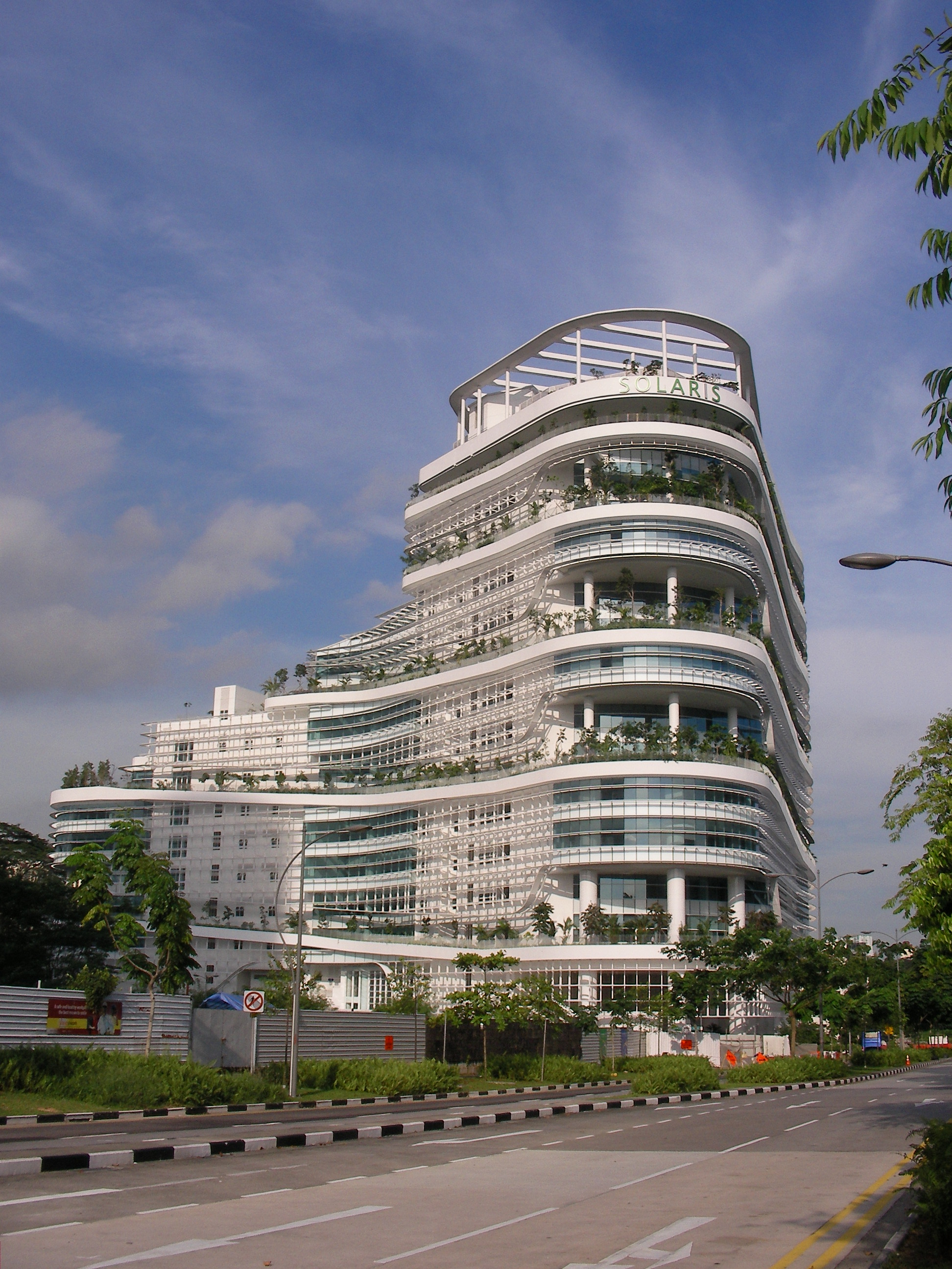 A picture of the Solaris @ one-north building where Ubisoft Singapore is located at.